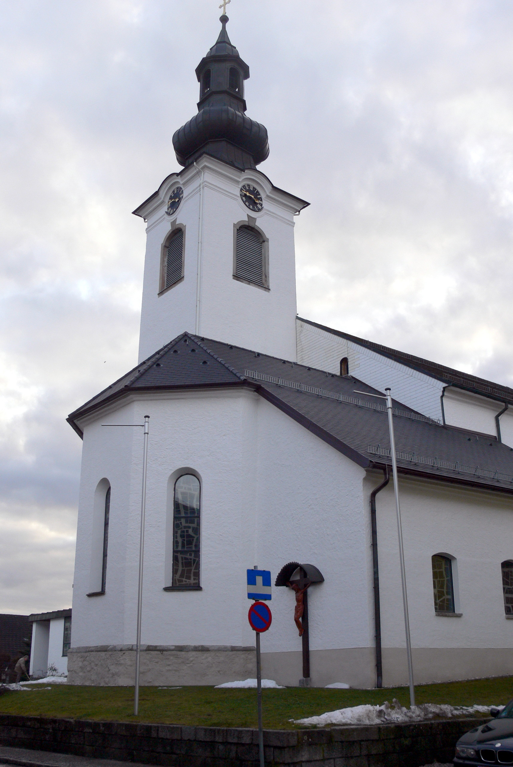 Lembach in Muehlkreis ( Upper Austria ). Saint Margarita parish church: Apse and church tower.